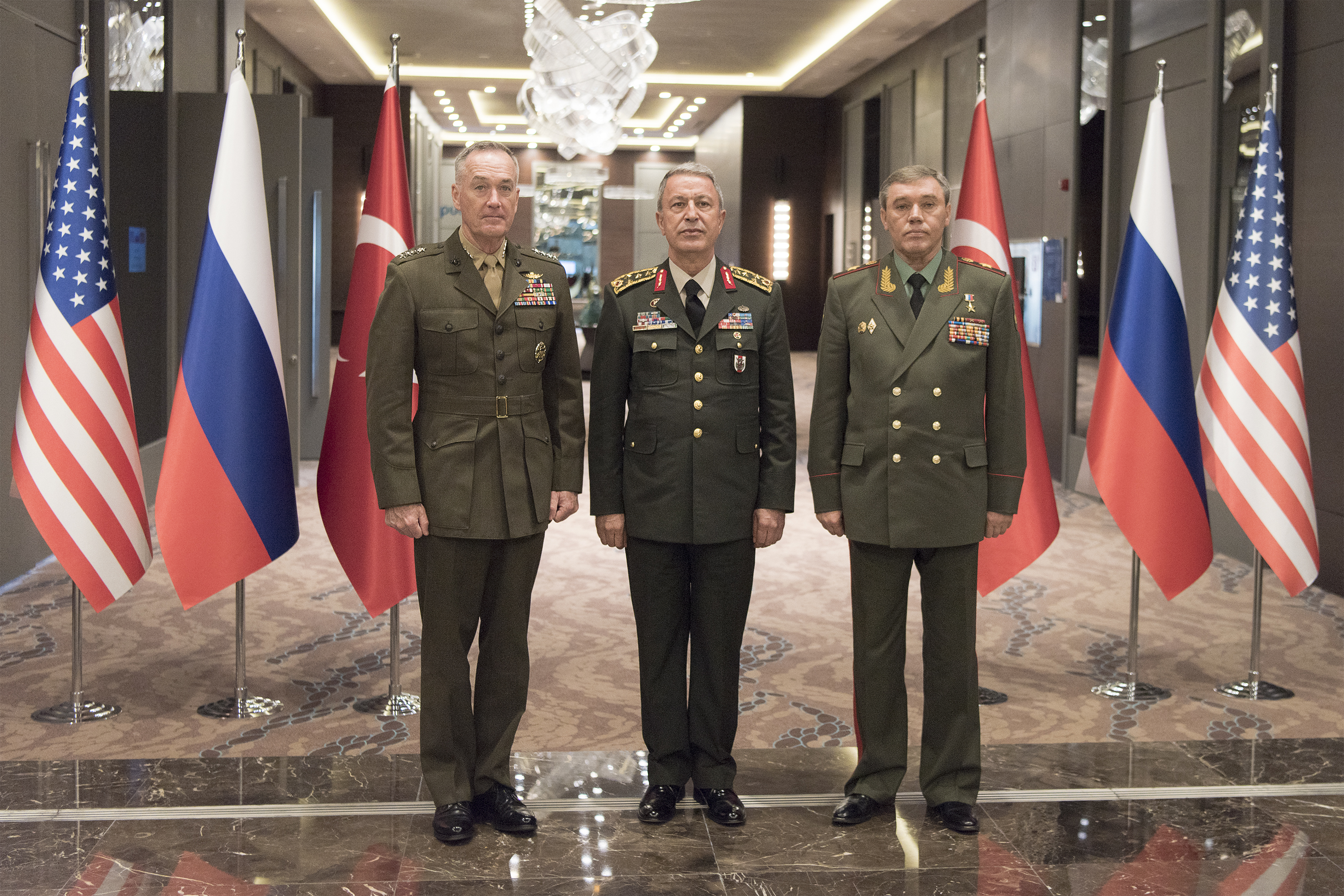 Marine Corps Gen. Joseph Dunford Jr., left, chairman of the Joint Chiefs of Staff, speaks with Gen. Hulusi Akar of the Turkish army, center, and Gen. Valery Gerasimov of the Russian army in Antalya, Turkey, March 6, 2017. The three chiefs of defense are discussing their nations’ operations in northern Syria. (Dept. of Defense photo by Navy Petty Officer 2nd Class Dominique A. Pineiro/Released)